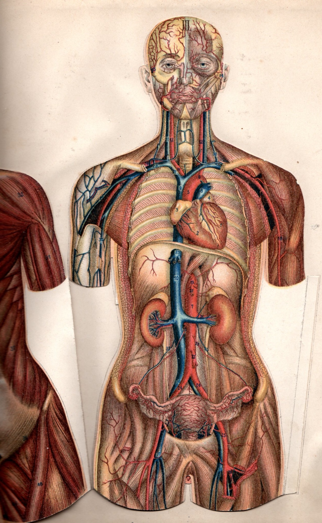 From the book "Qvinnans kropp", Swedish edition of a German book by Dr. G Panzer. Stockholm, Svanbäcks Boktryckeri 1897.